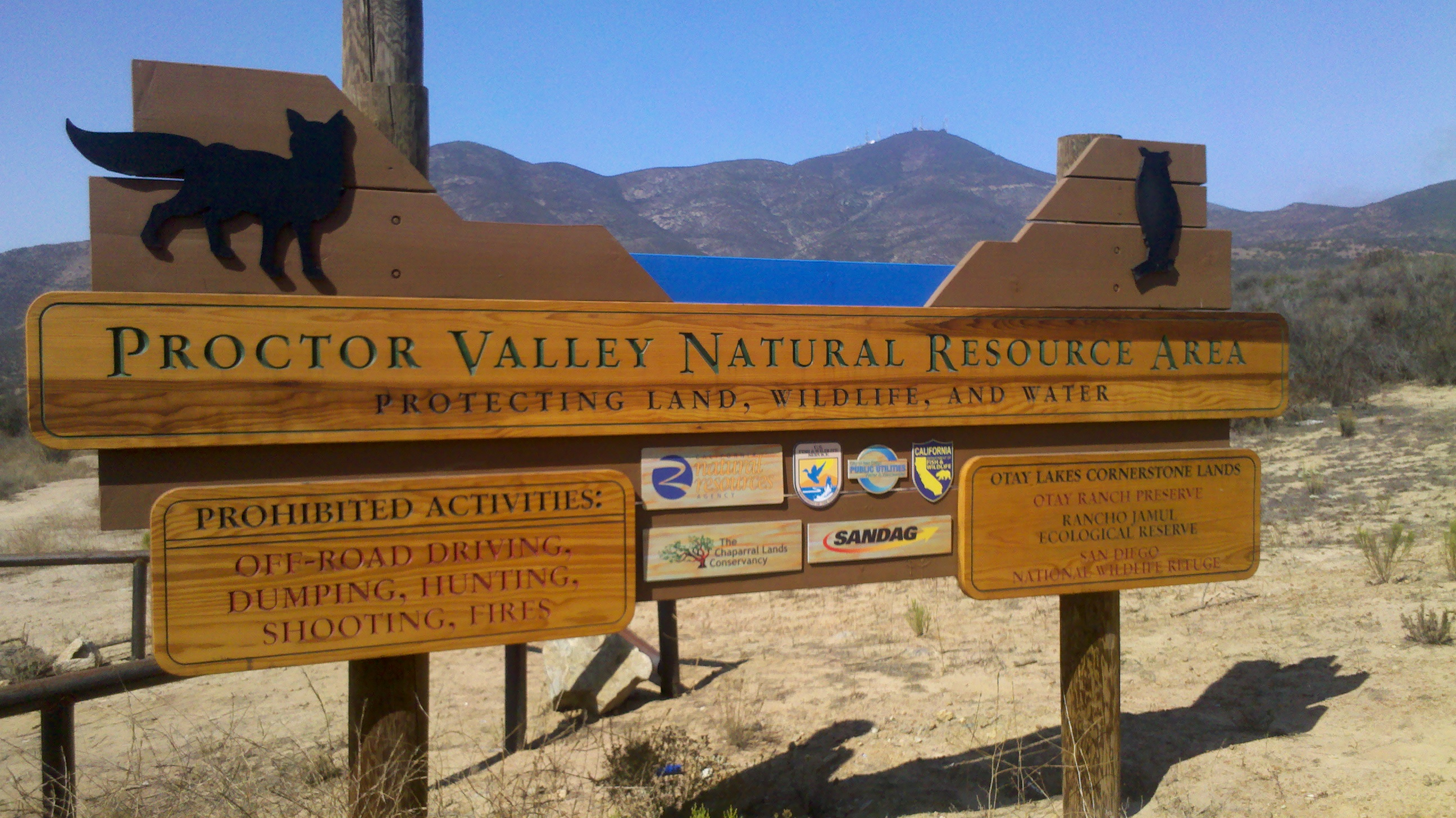 Signpost of the Procter Valley Natural resource area with San Miguel Mountain in the background